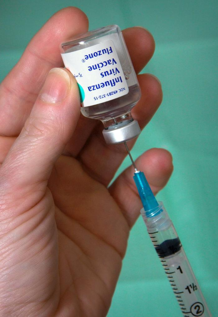 This is CDC Clinic Chief Nurse Lee Ann Jean-Louis extracting Influenza Virus Vaccine, Fluzone® from a 5 ml. vial.